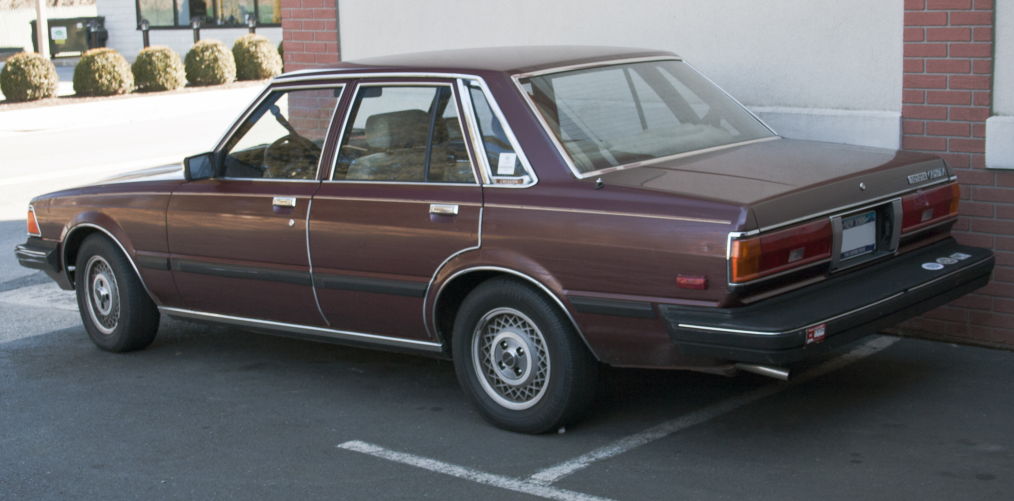 1983 Toyota Cressida (at a Nissan repair shop, no less!)